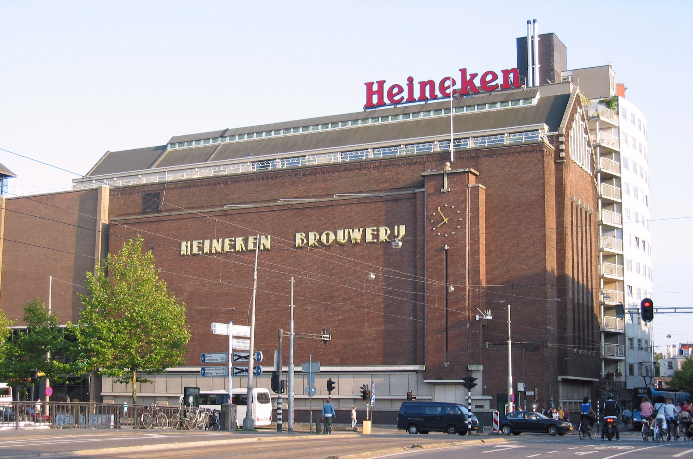 Former Heineken brewery in the centre of Amsterdam (Stadhouderskade 78), the Netherlands..